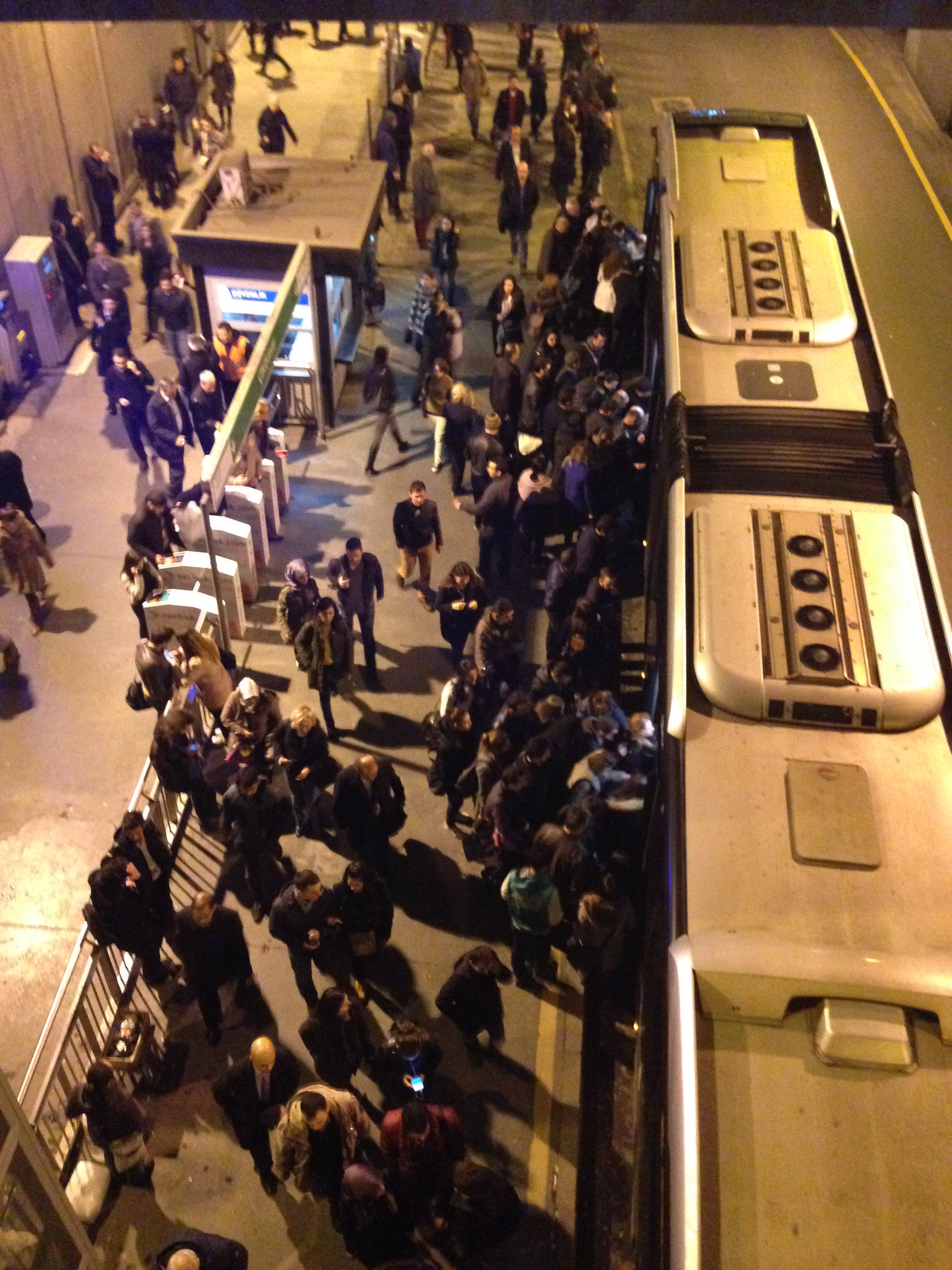 Crowds of commuters boarding a metrobus at Zincirlikuyu.